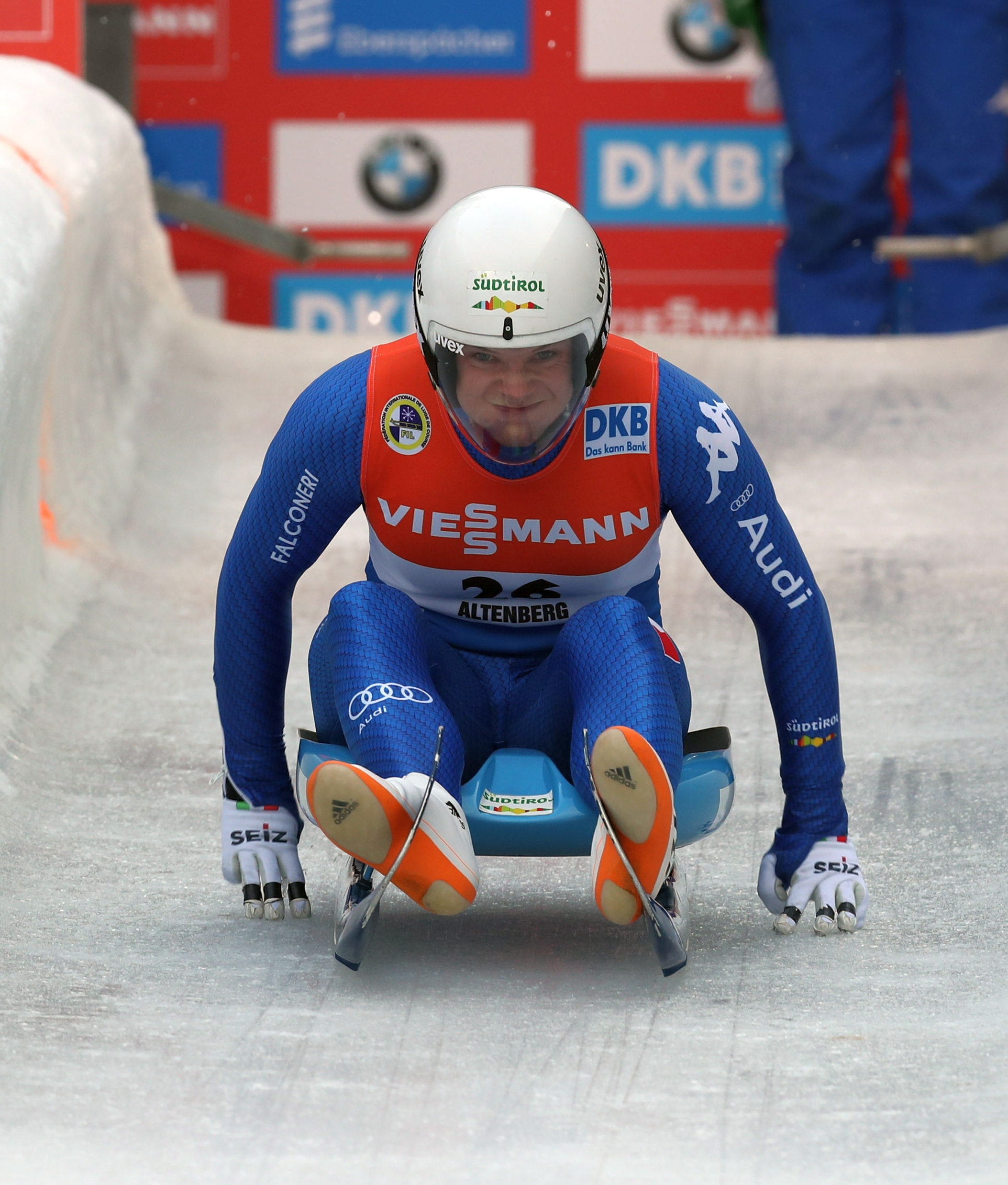 Luge World Cup Men 2017/18 in Altenberg: Kevin Fischnaller